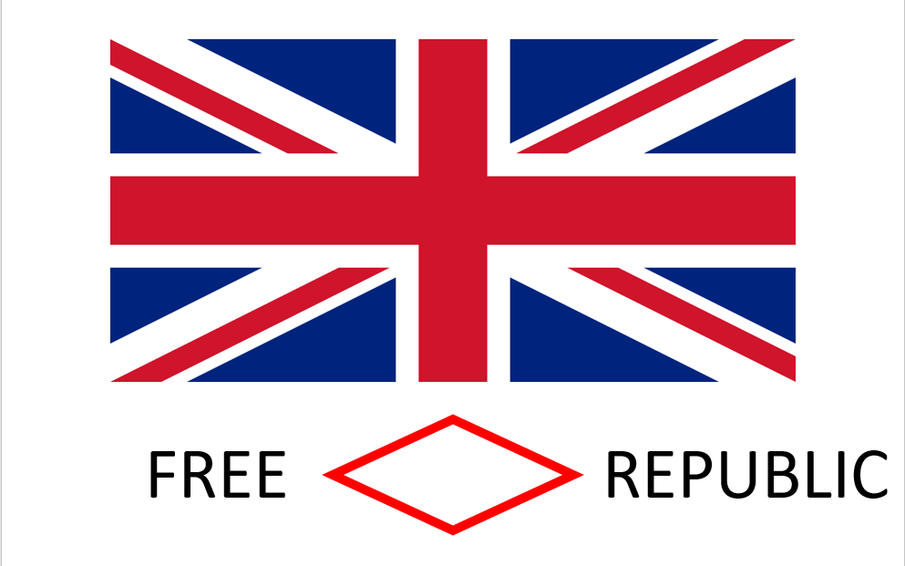 Diamond flag of the Diggers' Republic taken from the South African Flag Book by A.P. Burgers plate37